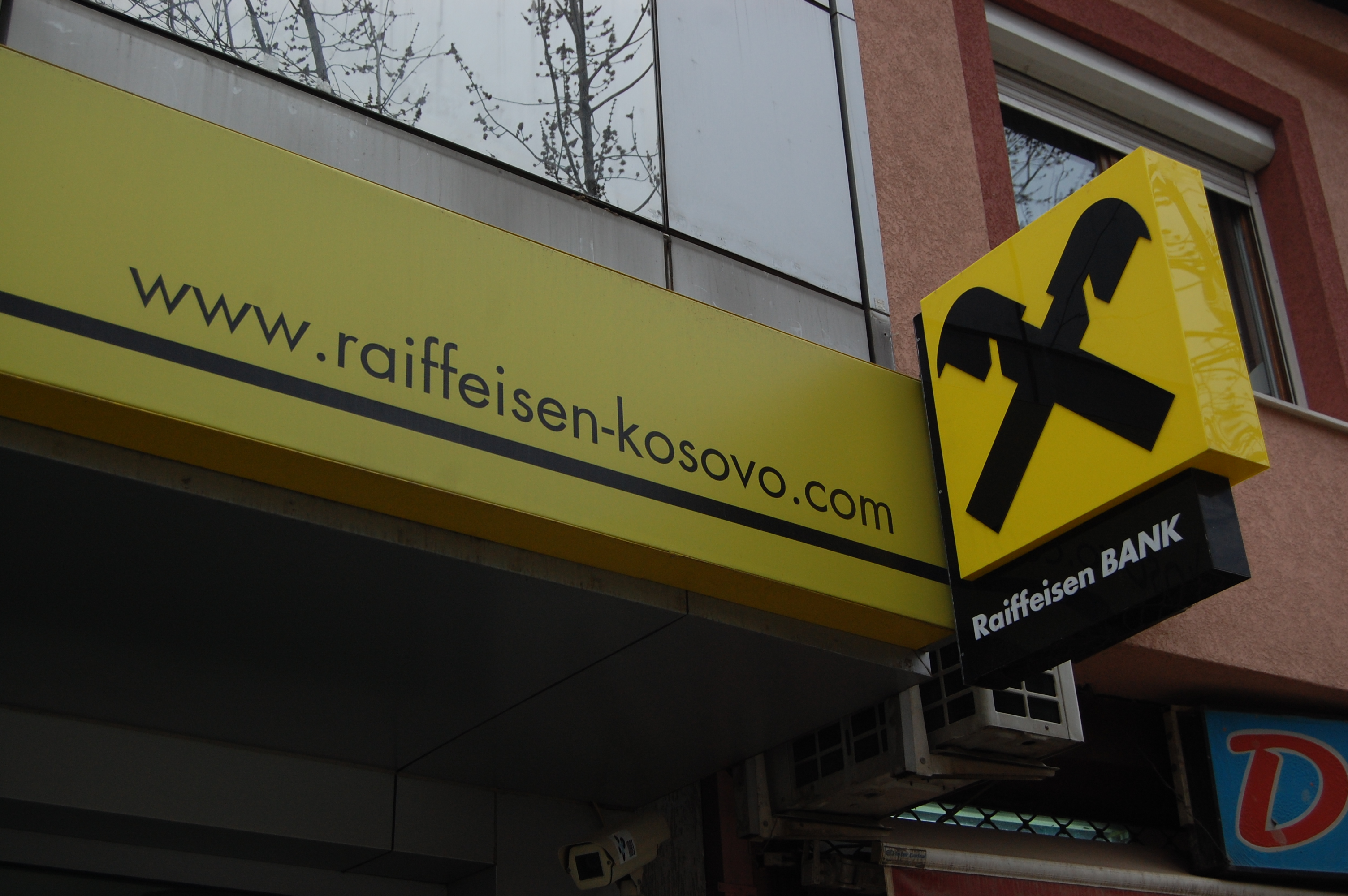 Raiffeisen Bank on Agim Ramadani Street, Pristina, Kosovo.